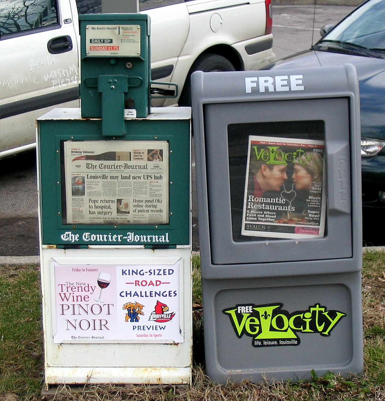 The Louisville Courier-Journal and Velocity.